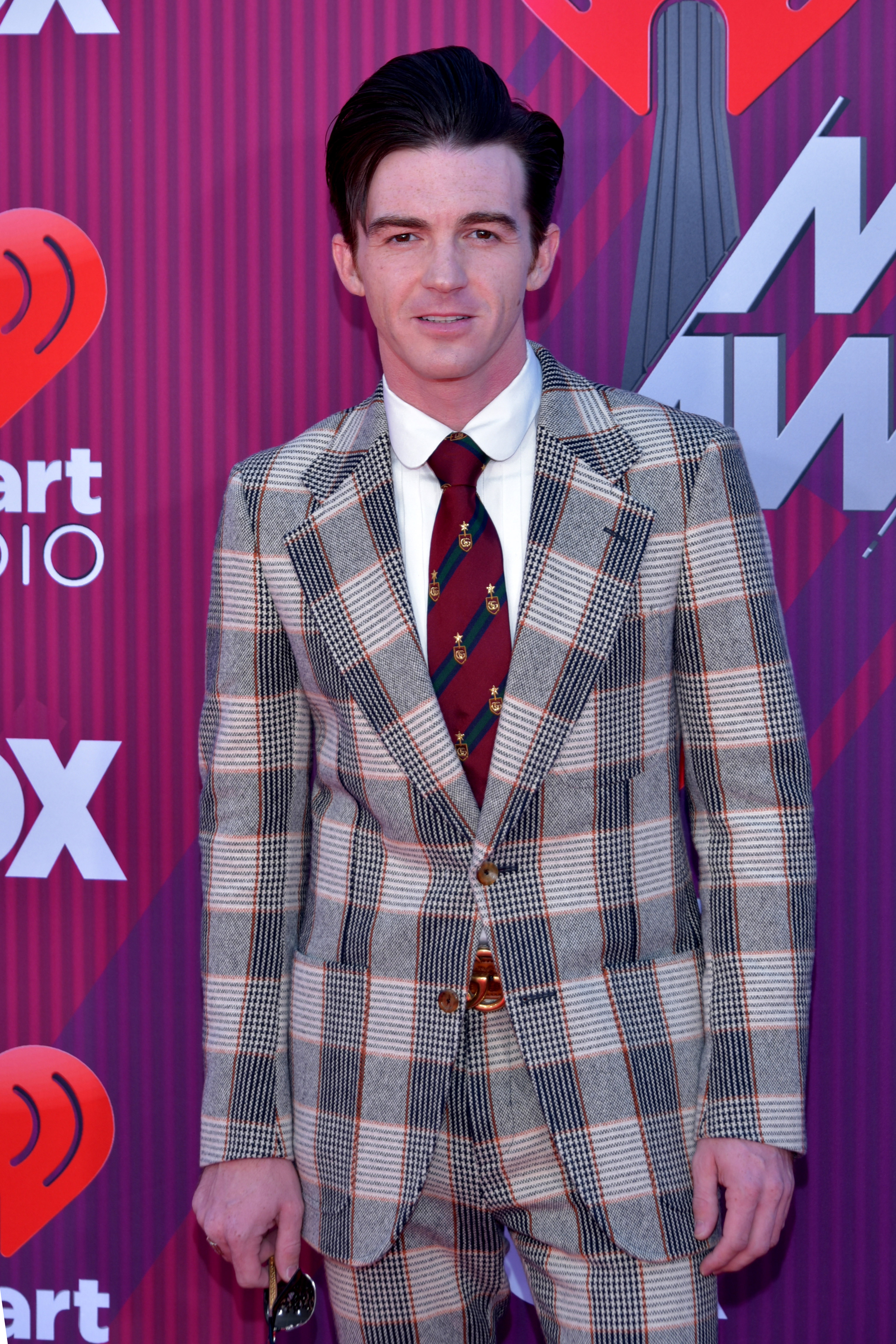 Drake Bell at the 2019 iHeartRadio Music Awards in Los Angeles California on March 14, 2019 - Photo by Glenn Francis of